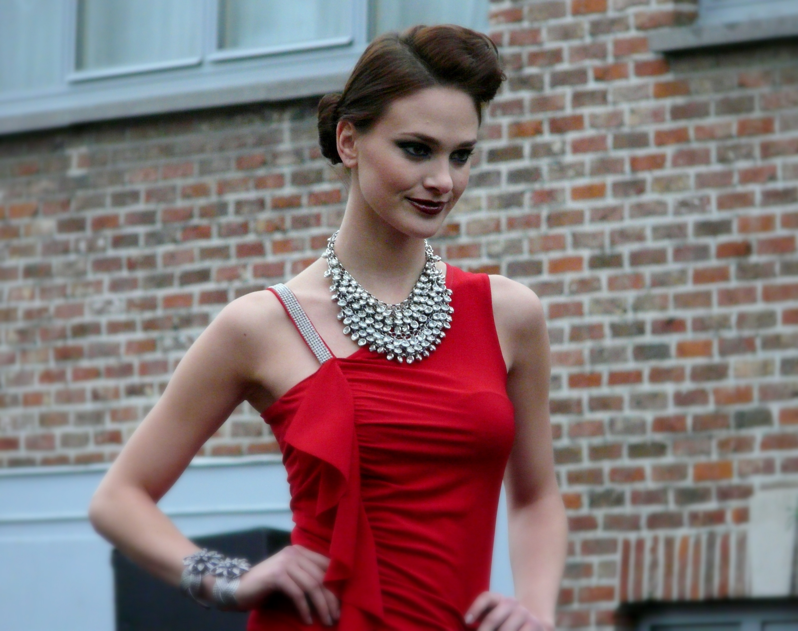 Cilou Annys on her way to a party.